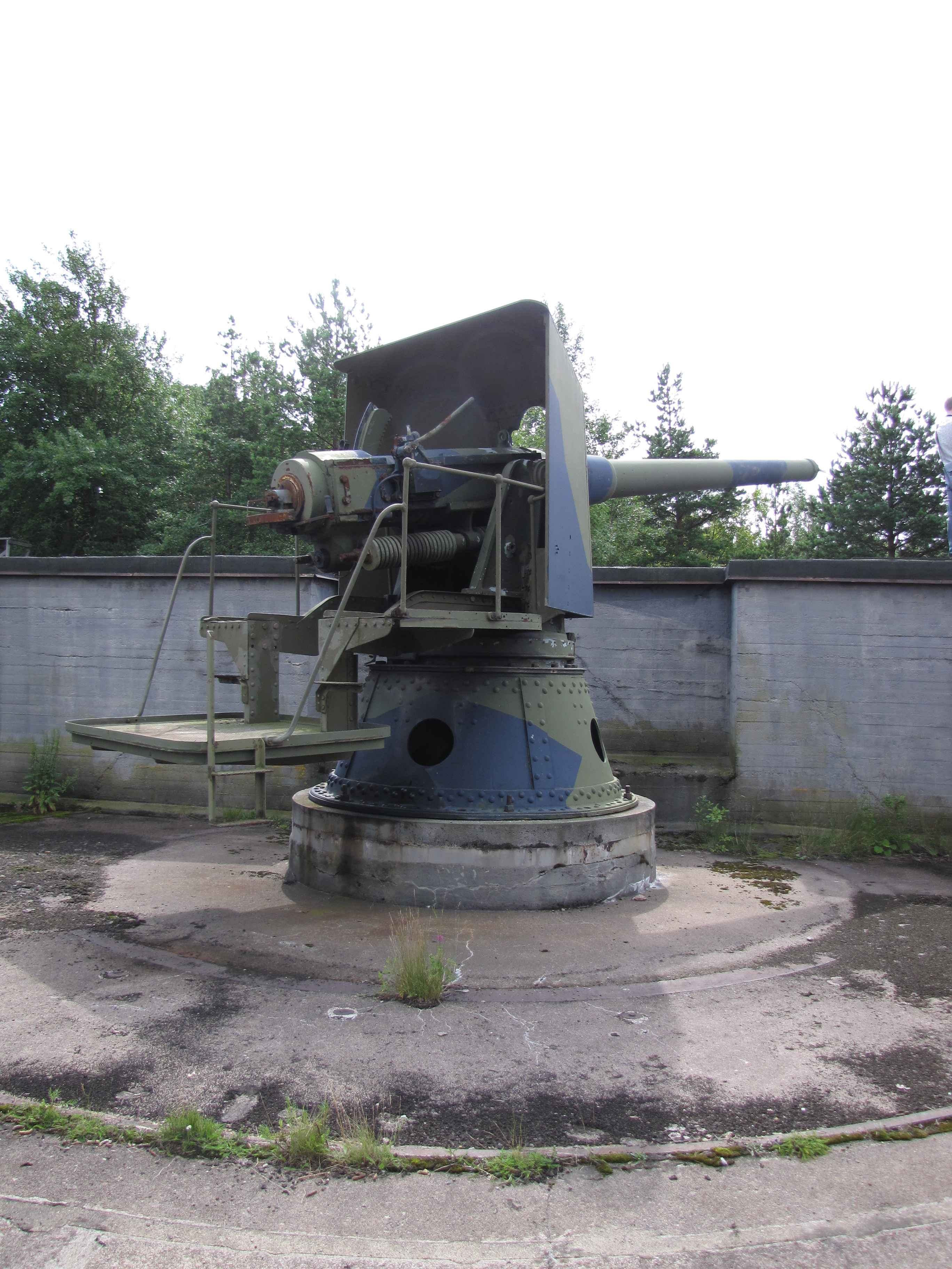 152 mm 45 calibre Canet model 1892 coastal gun in Kuivasaari island. This gun has been restored to original condition, though the fortified position was originally intended for a 254mm (10inch) Durlacher gun. Manufactured by Obukhov state plant in 1896, serial number 30.